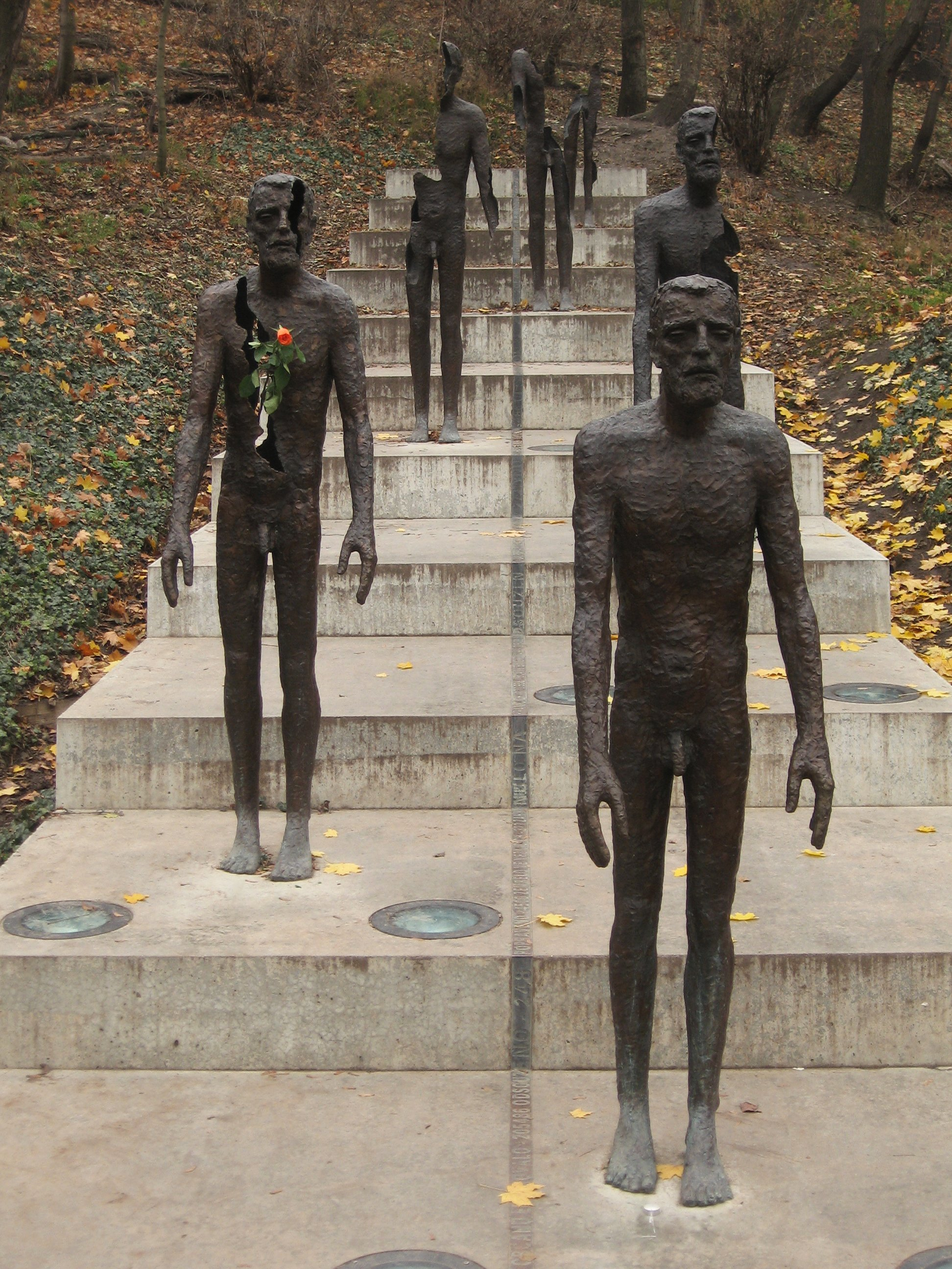 Monument to the victims of communism, sculptures by Olbram Zoubek, project: Zdeněk Hölzl and Jan Kerel. Inauguration: may 2002. Prague